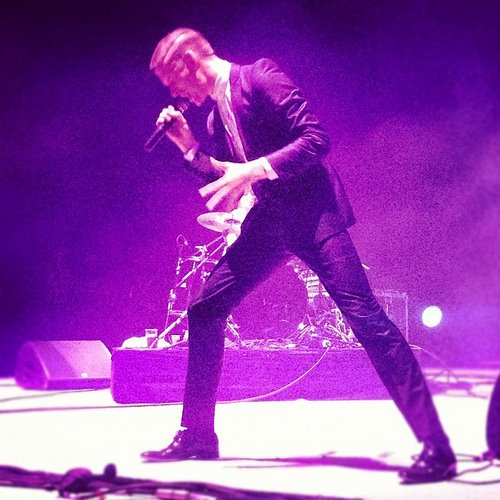 Willy Moon at the Midi Festival in 2012.